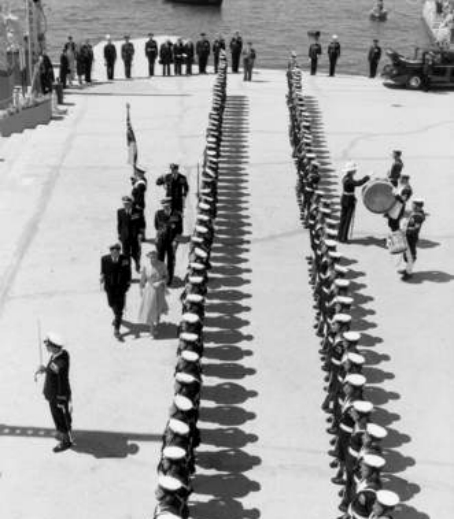 Her Royal Highness Queen Elizabeth II inspects the naval Guard of Honour after arriving at Customs House in Valletta, Malta. She was on a tour of the Commonwealth. At the time 78 Fighter Wing RAAF was based in Malta while undertaking garrison duty.